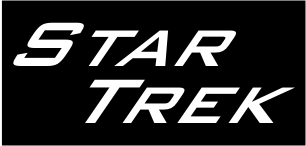 Star Trek Logo created for User:UBX/User Trekkie .